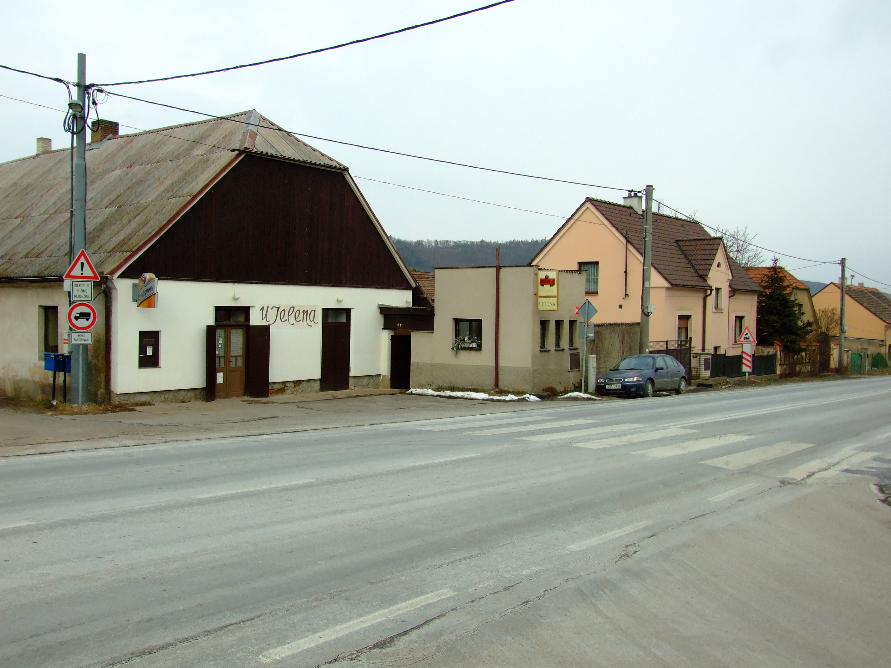 Vráž village near the city of Beroun, Central Bohemian region, CZhelp